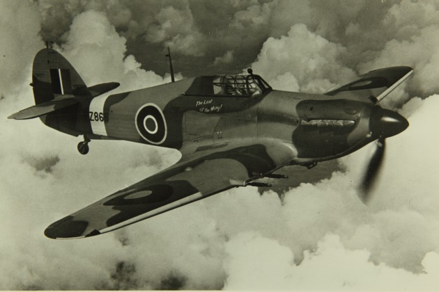 PictionID:6504455 - Catalog:01_00081081 - Title:Hawker, Hurricane - Filename:01_00081081.TIF - Image from the Charles Daniels Photo Collection album "Seversky, Republic and P-47"----PLEASE TAG this image with any information you know about it, so that we can permanently store this data with the original image file in our Digital Asset Management System.----SOURCE INSTITUTION: San Diego Air and Space Museum Archive